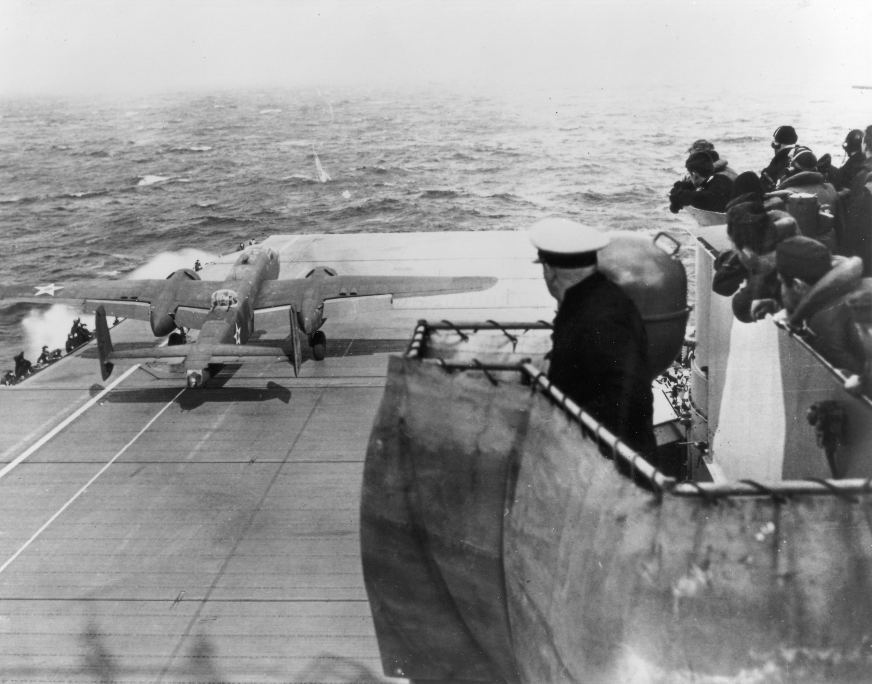 A U.S. Army Air Force North American B-25B Mitchell bomber taking off from the U.S. Navy aircraft carrier USS Hornet (CV-8) during the Doolittle Raid on 18 April 1942.